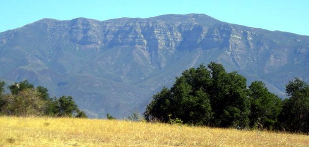 Photo by Marie Rhodes, taken at Meher Mount, California.